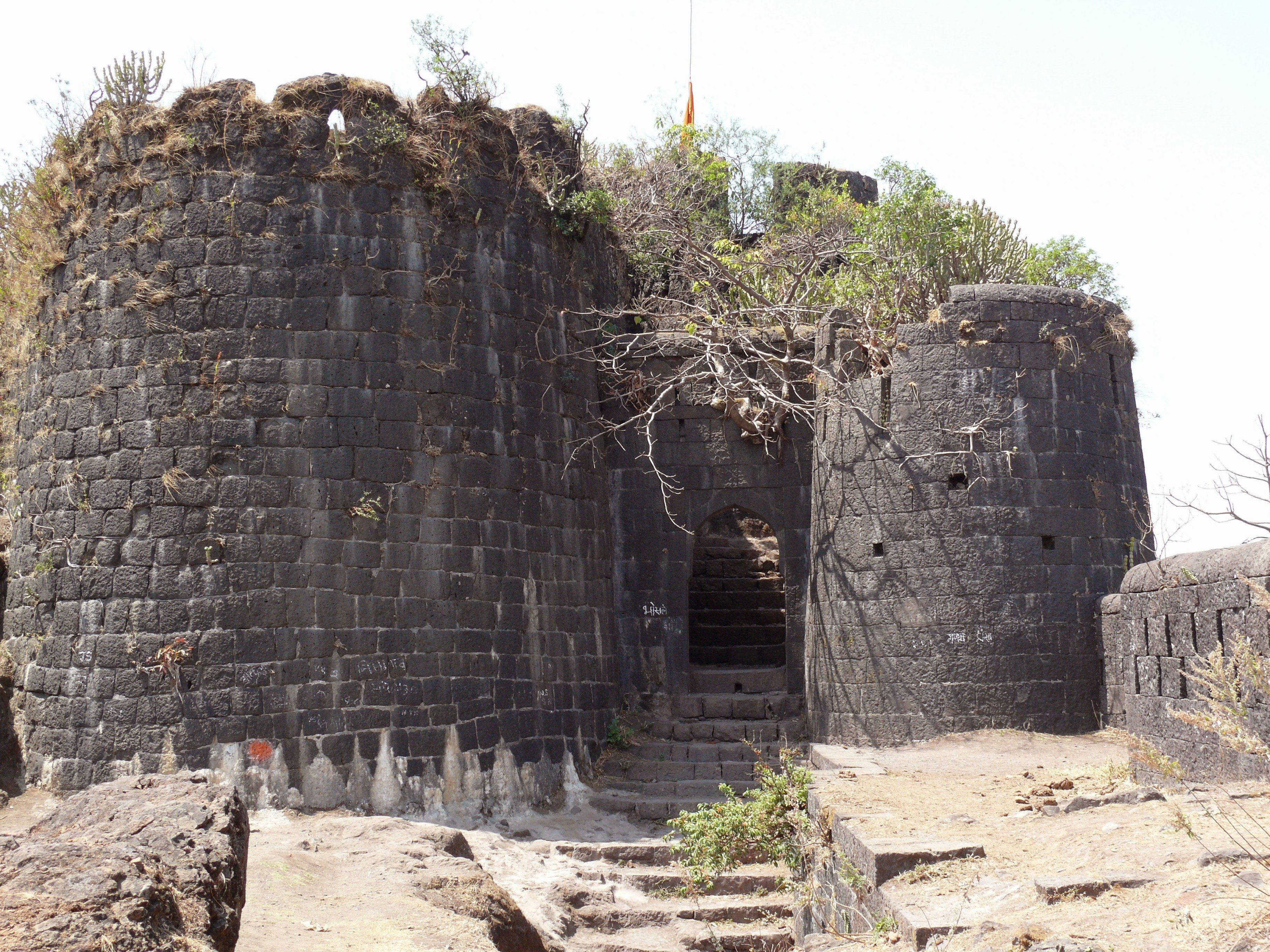 Purandar fort